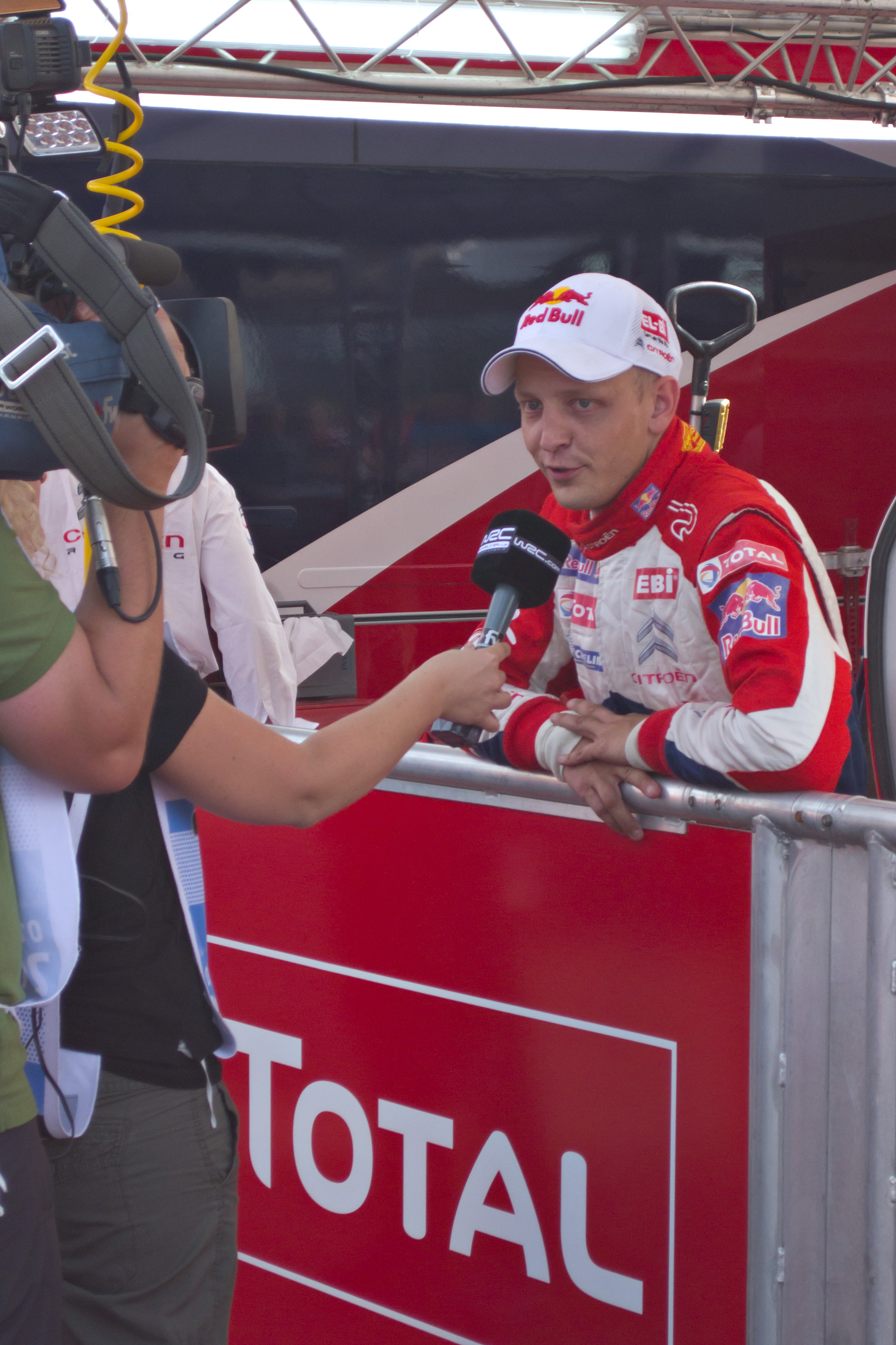 Action from the service D during the 2012 Rally Finland.